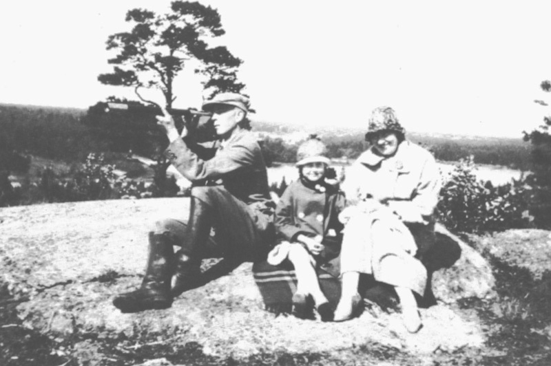 Family